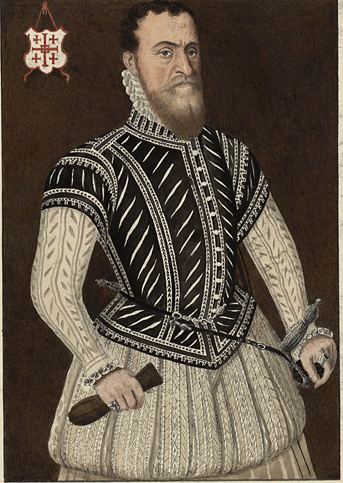 Sir Richard Clough (c. 1530–1570). Copy(c1775) of an Elizabethan portrait